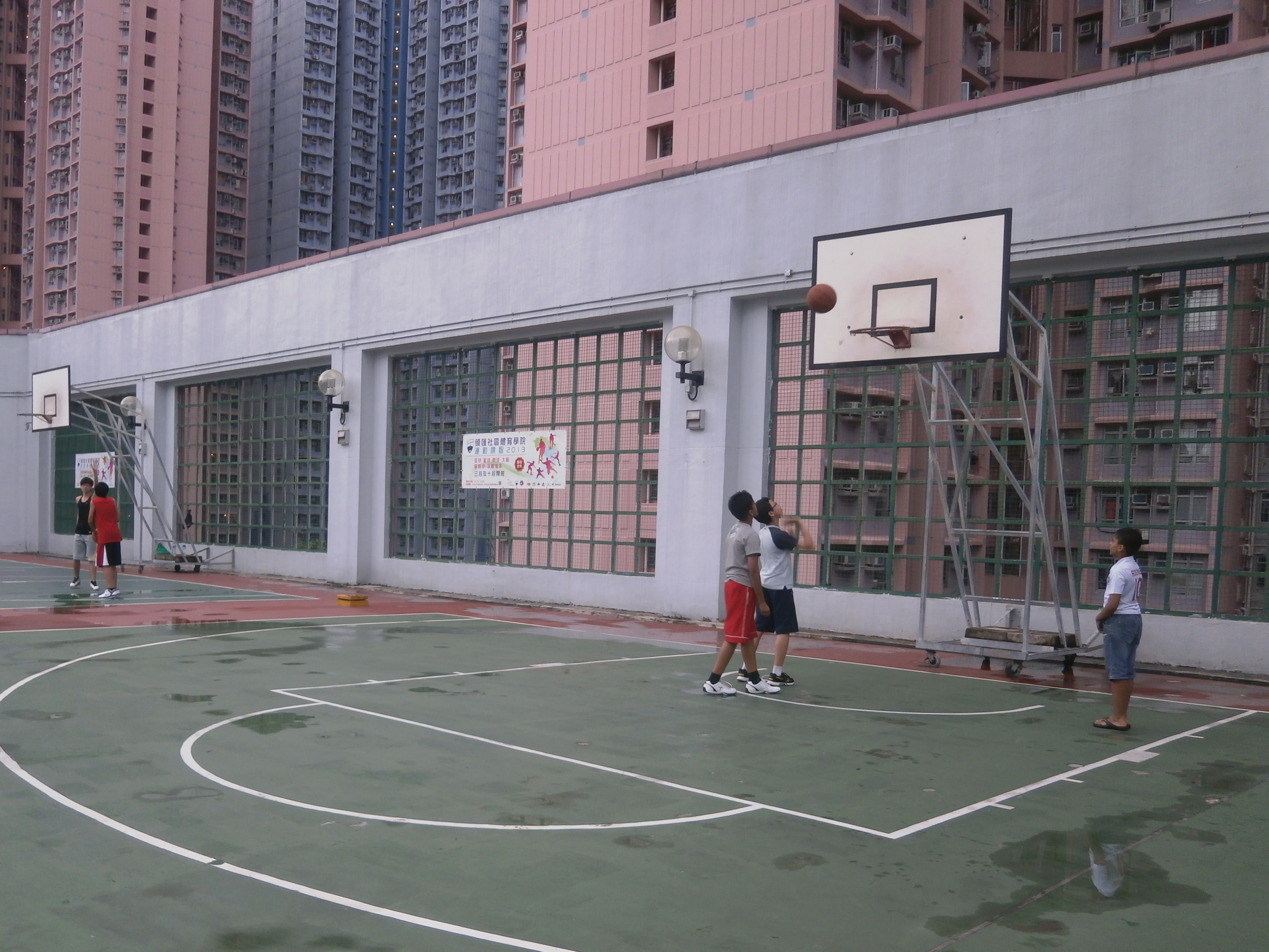 Sheung Tak Plaza Basketball court